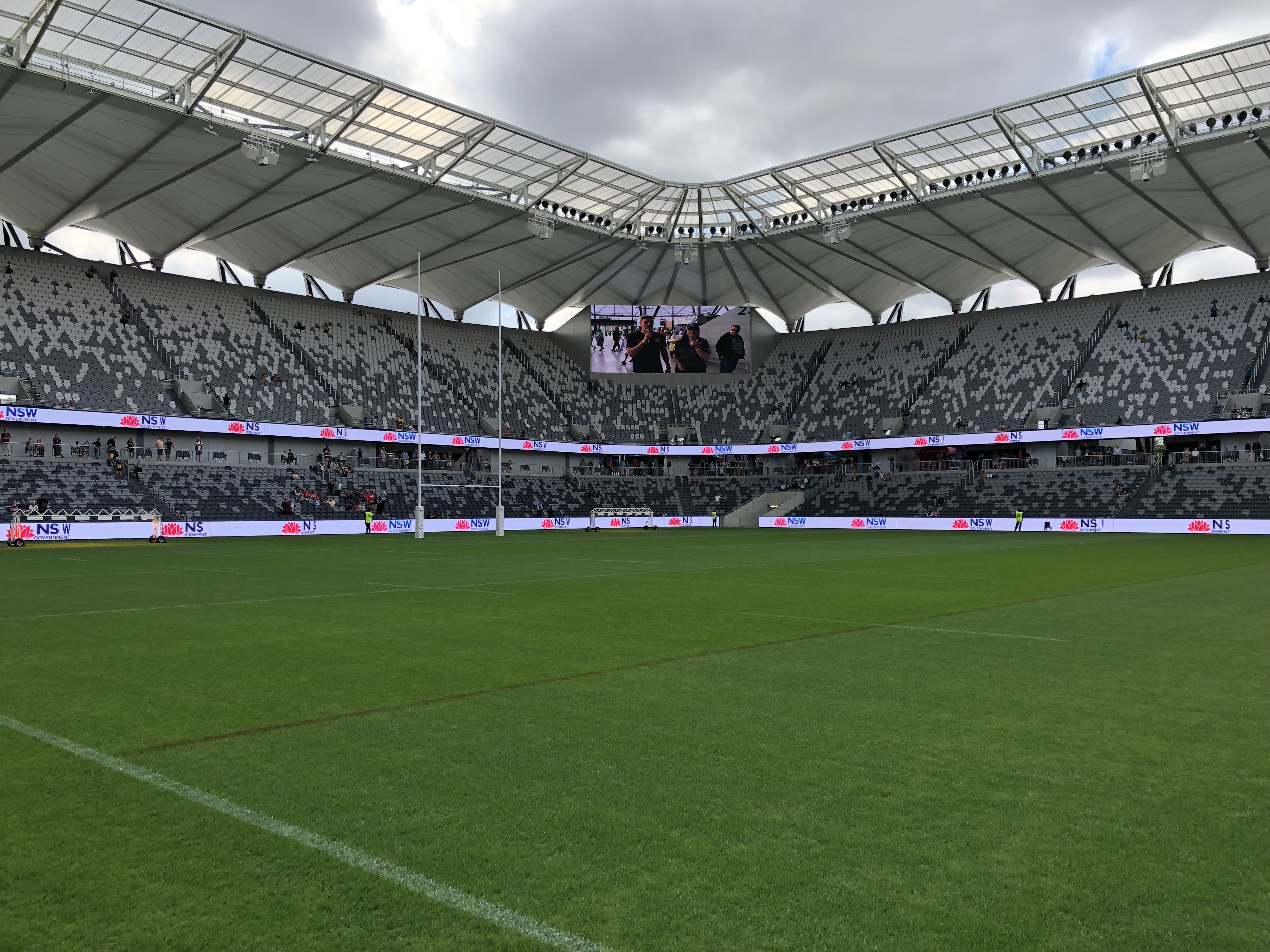 Bankwest Stadium on pitch at halfway looking NE